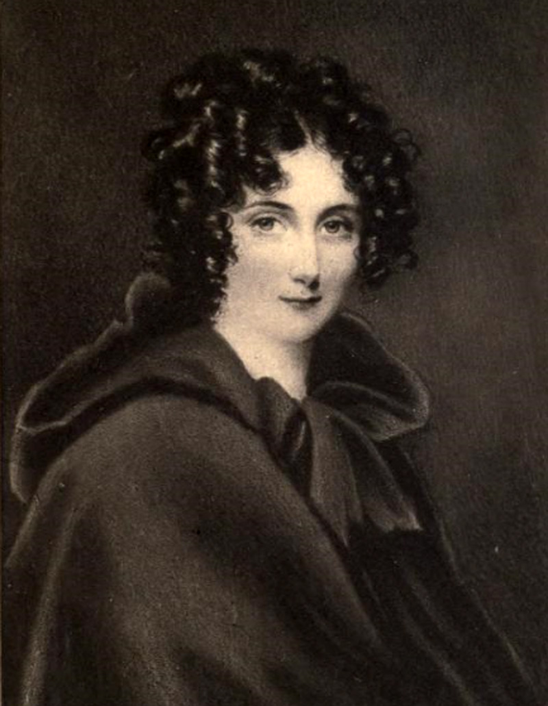 Cecilia Bosanquet(1789-1868) daughter of William Franks and wife of George Jacob Bosanquet of Broxbourne